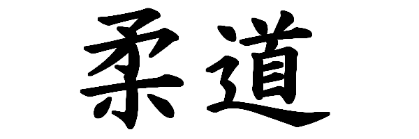 the word "jūdō" (柔道) in Sino-Japonese kanji script; wide format for the German Wiktionary